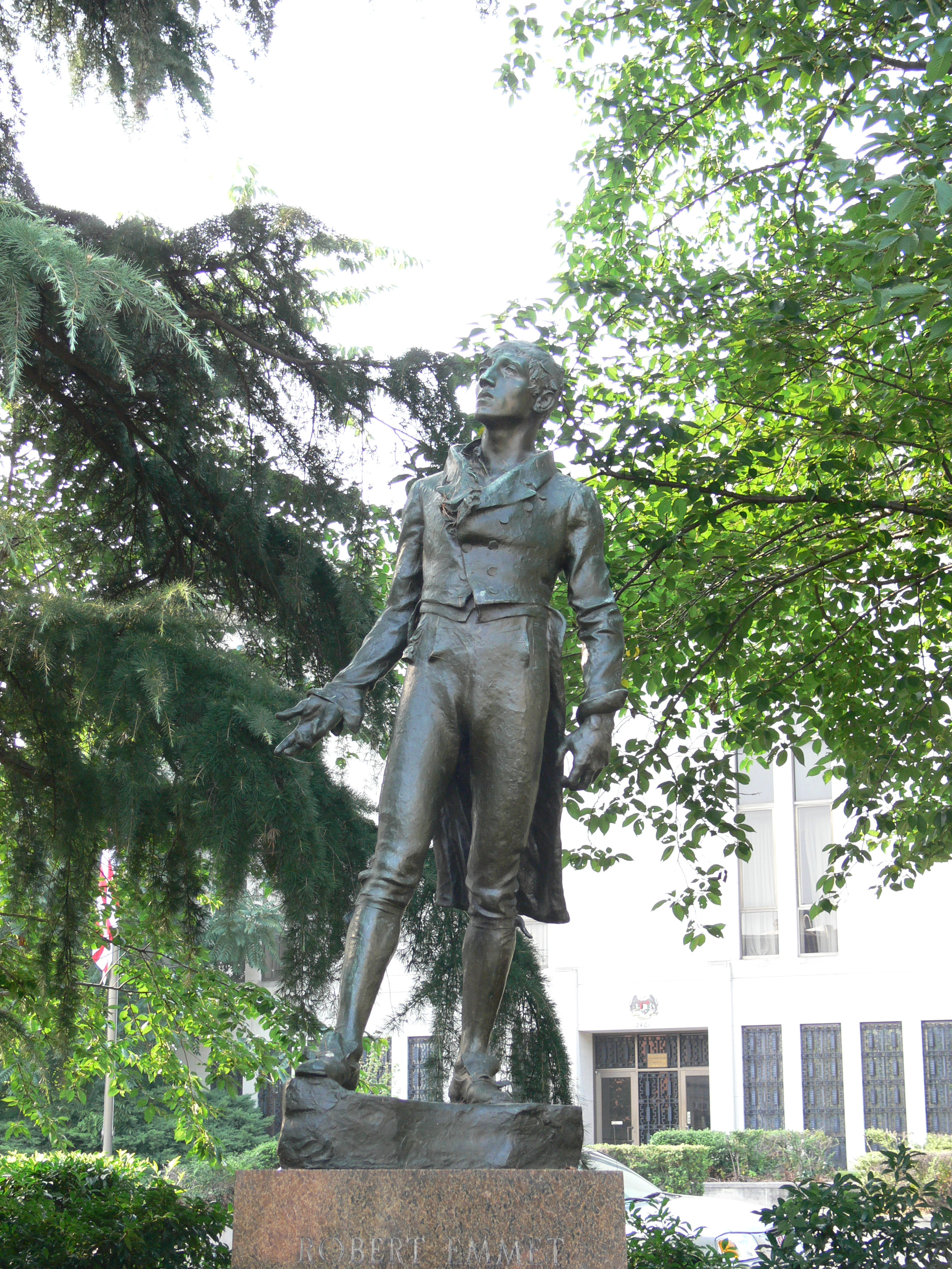 "Robert Emmet," Irish patriot, by sculptor Jerome Connor in 1917. Owned by the Smithsonian American Art Museum and on view in Washington, DC on Massachusetts Avenue between 24th and S Streets, NW.